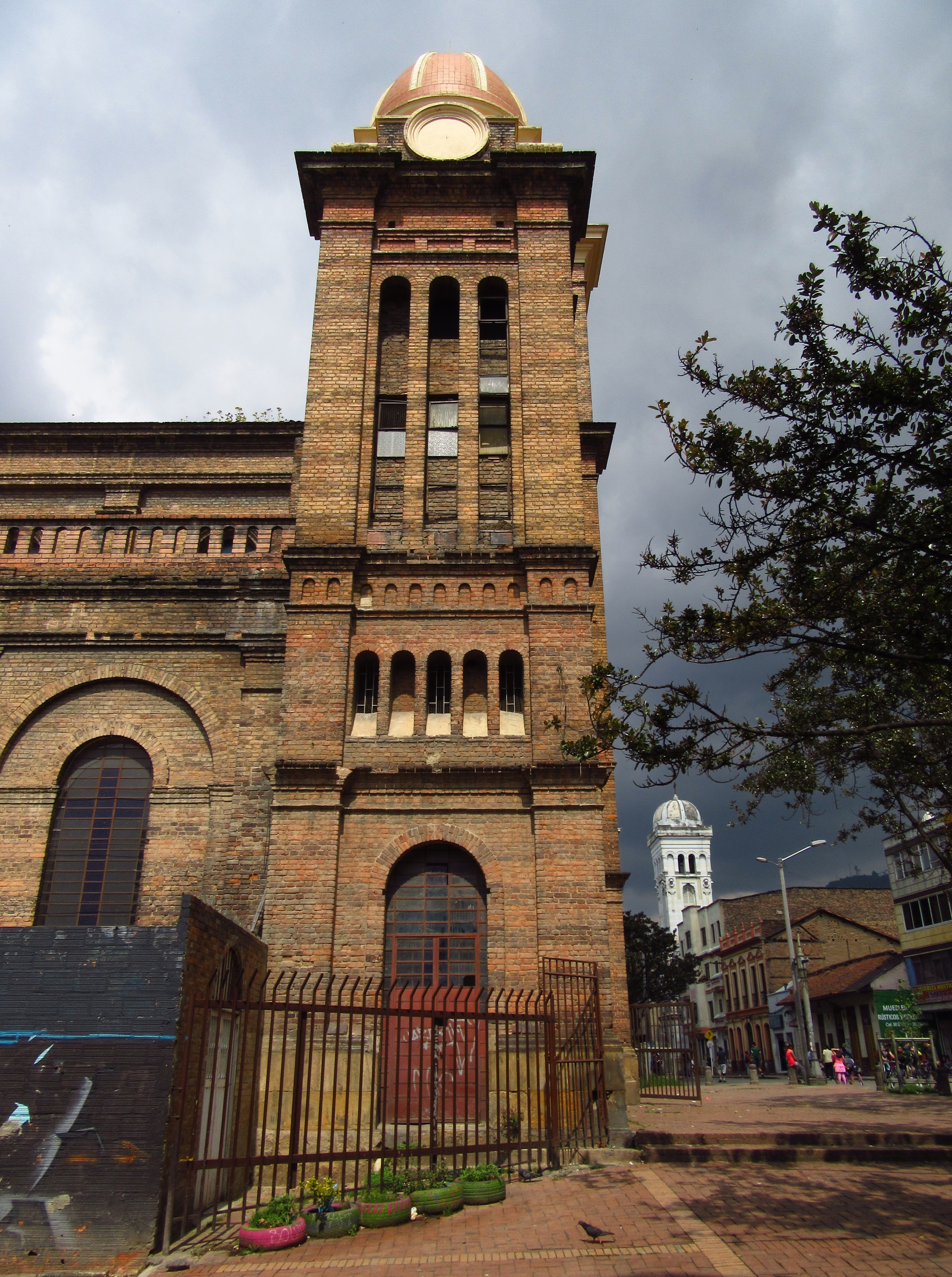 Bogotá